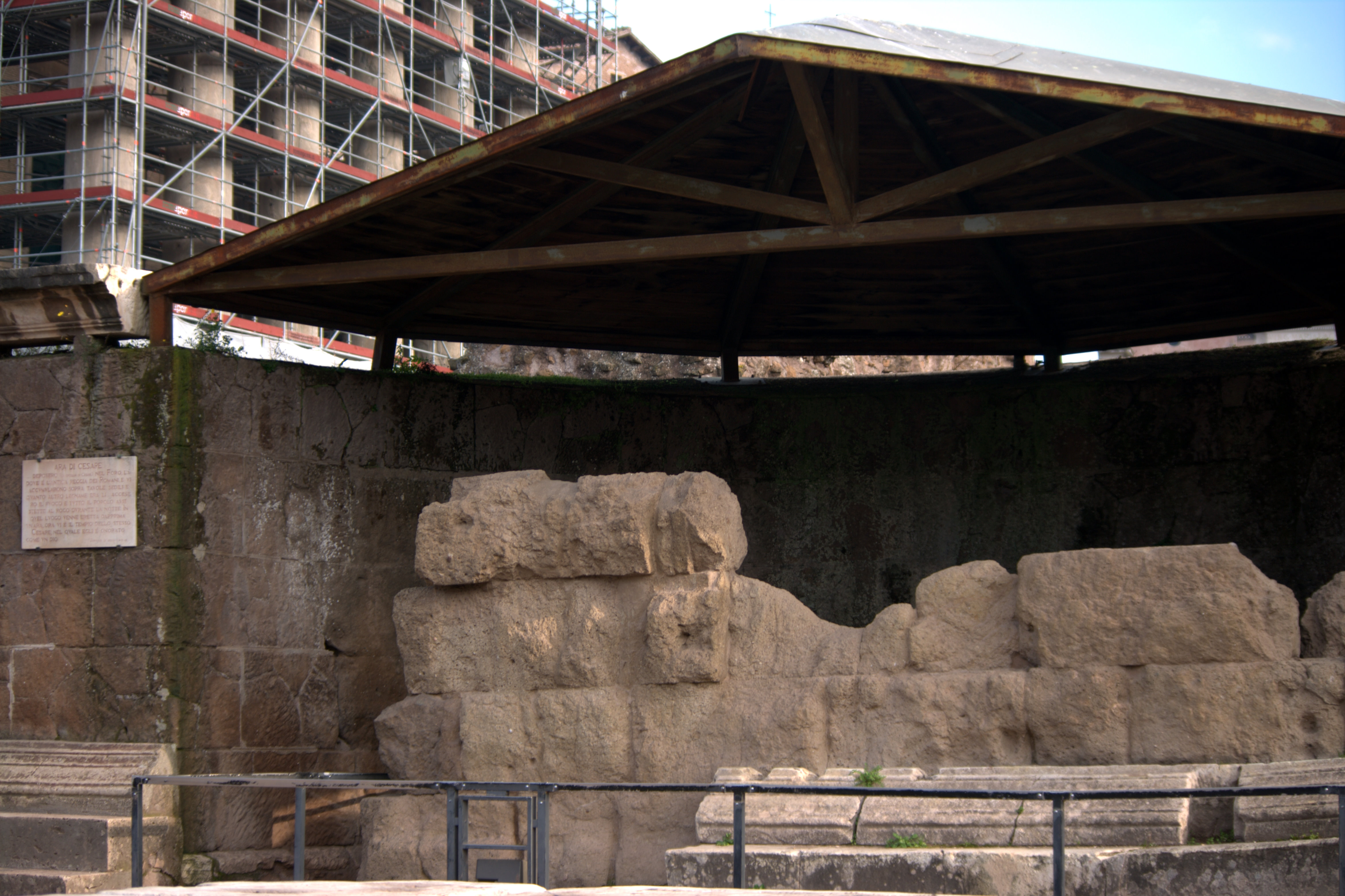 Front view of the Temple of Julius Caesar in Rome.